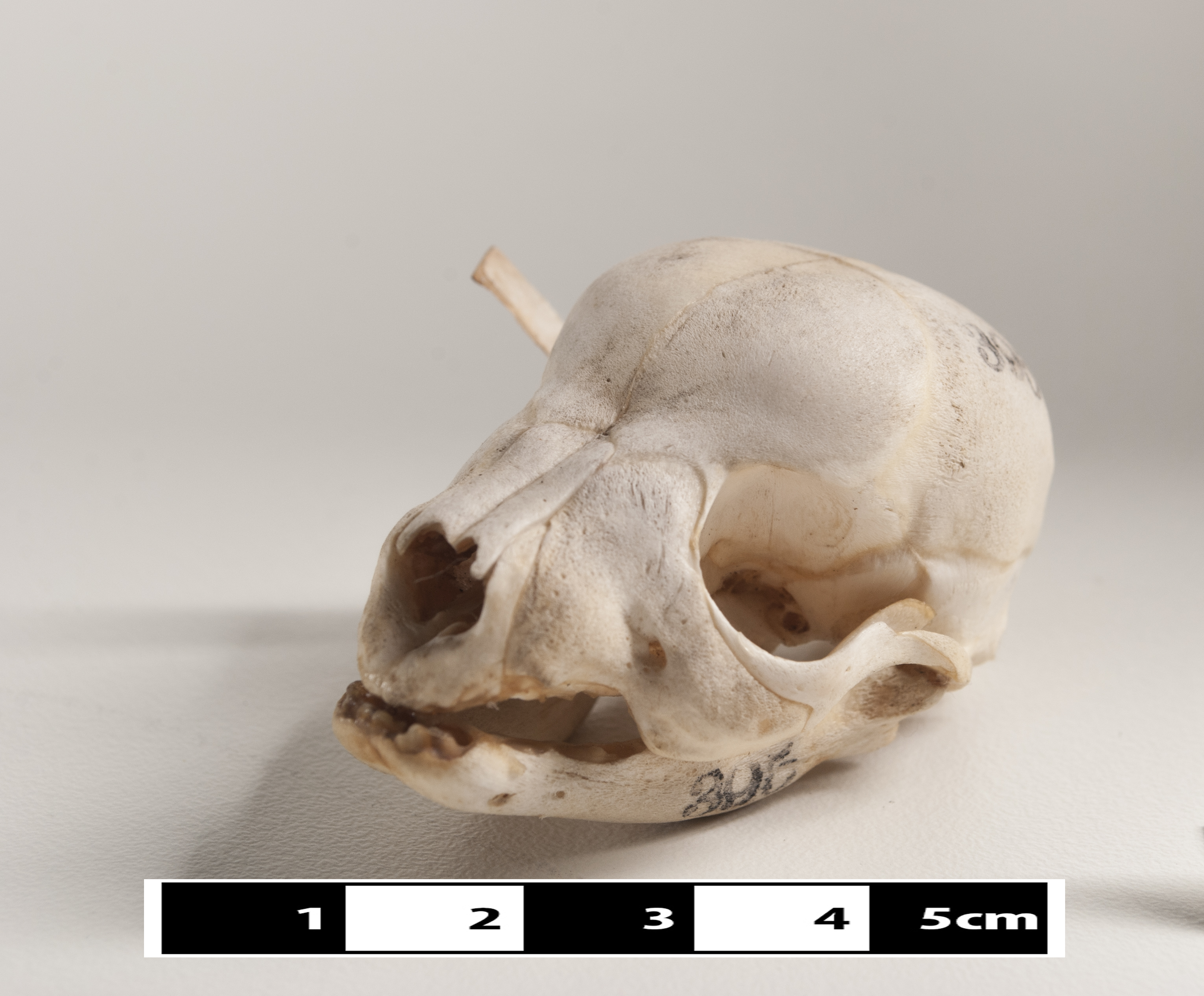 Dog skull. Canis lupus familiaris Specimen of dog skull prepared by the bone maceration technique and on display at the Museum of Veterinary Anatomy, FMVZ USP. This file was published as the result of a partnership between the Museum of Veterinary Anatomy FMVZ USP, the RIDC NeuroMat and the Wikimedia Community User Group Brasil. This GLAM project is reported. Photography: Museum of Veterinary Anatomy FMVZ USP. Author: Wagner Souza e Silva.